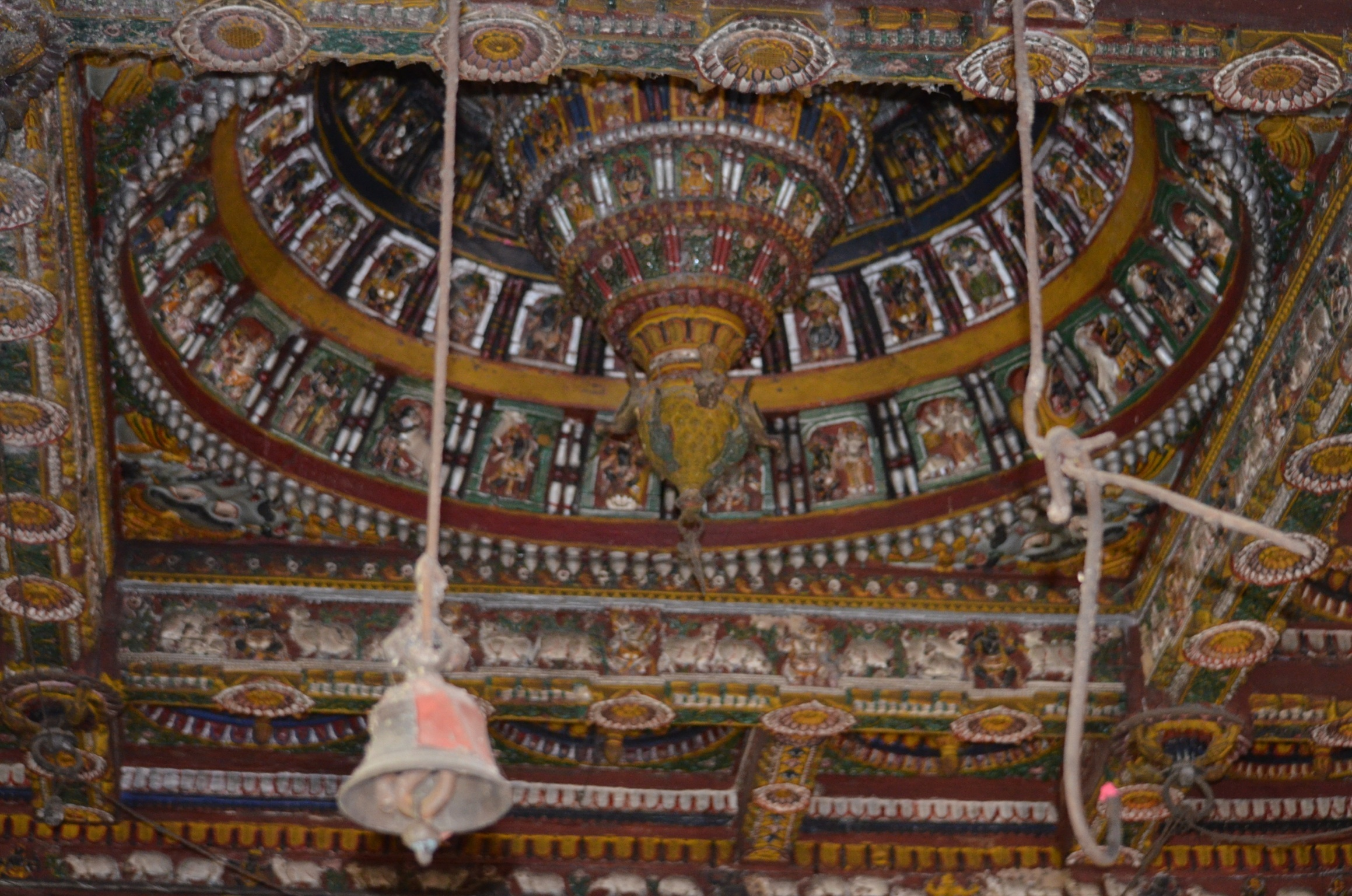 Wooden carving at Biranchinarayana Temple at Buguda, Ganjam.This is one very old Sun temple where you can finds lots of mural painting and wooden work.